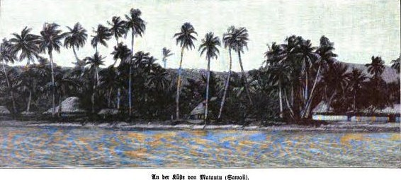 Matautu village north coast Savai'i island in Samoa, 1902 I downloaded image from Internet Archive org website [1] where it is stated that the book is NOT IN COPYRIGHT. I cropped it & uploaded to wikimedia commons. This image is from a book published 1902, so out of copyright.